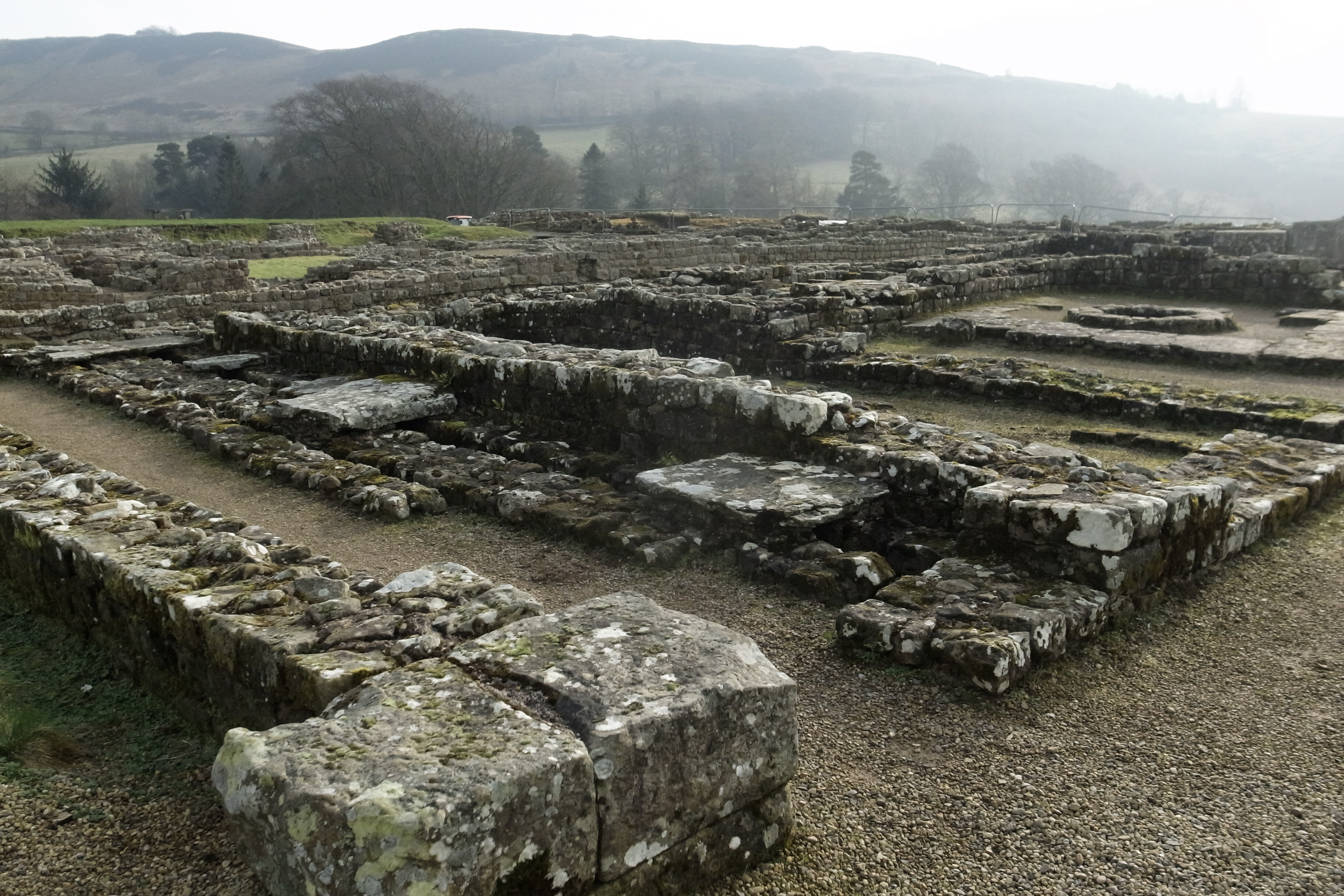 Principia building at Vindolanda, Northumberland